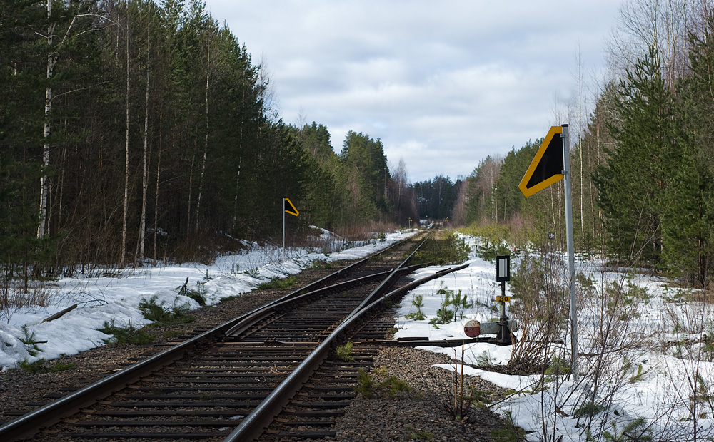 Lahti–Heinola railway in Jyränkö, Heinola, Finland